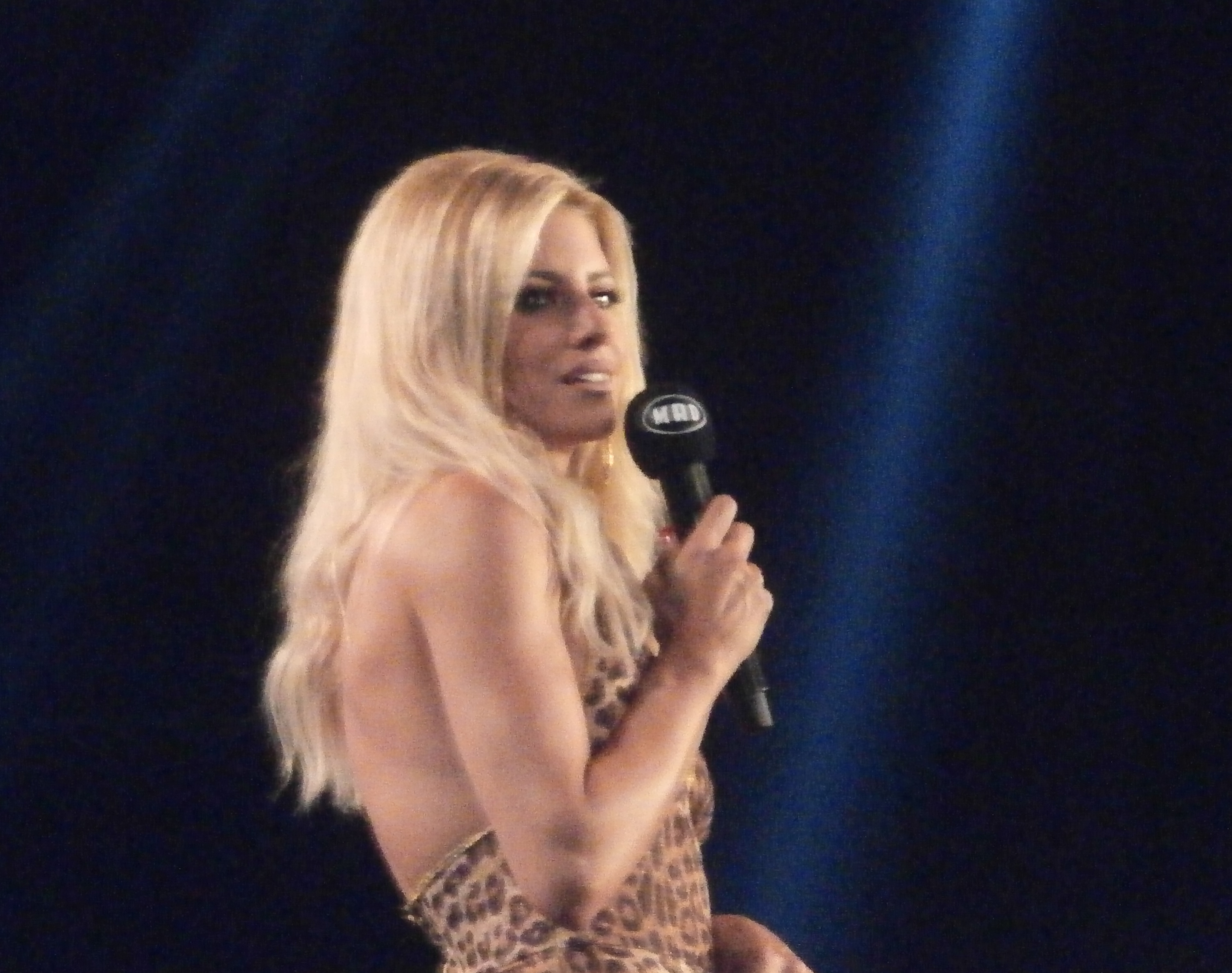 Evaggelia Aravani presenting MAD Video Music Awards 2017.